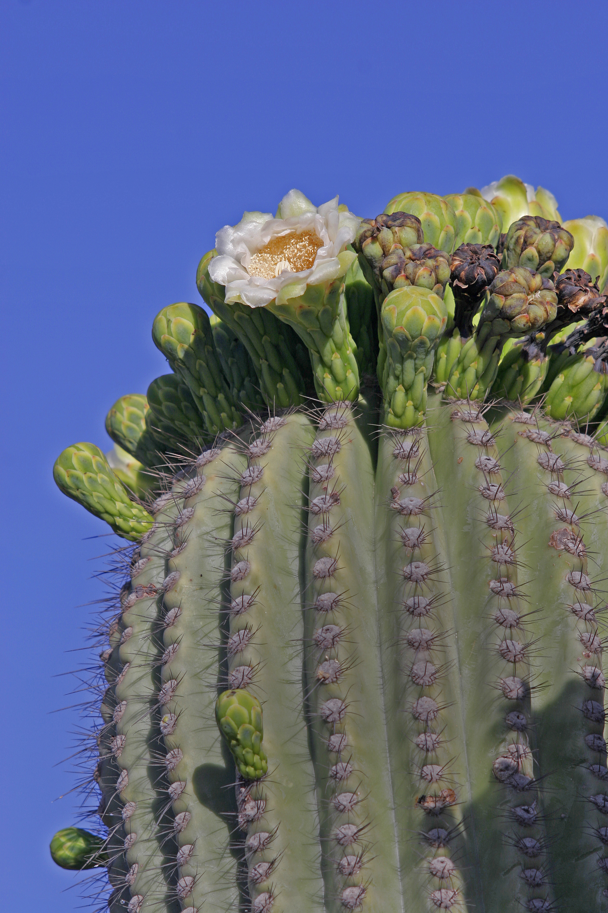 Saguaro cactus at the Sonoran Desert, Mexico.